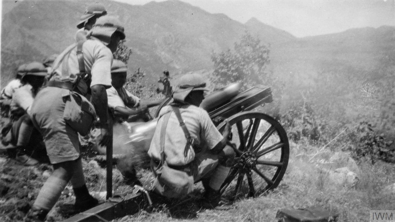 THE SERVICE OF AIR VICE-MARSHAL GERARD COMBE IN THE ROYAL AIR FORCE, 1923-1946. Mountain gun of the Iraqi Army column, 'Dicol', shelling Shirwan-A-Mazin from a hillside at Kani-Ling during the Barzan operations. FURTHER INFORMATION: Sheik Ahmad of Barzan led a rebellion in Kurdistan, North-eastern Iraq, against the Iraqi government in 1931-1932. The Iraqi Army advanced into the Barzan area in March 1932, but required intensive support from the RAF before the territory was successfully occupied. Sheikh Ahmad surrendered on 21 June to Turkish authorities on the Turkey-Iraq border and made his submission to the Iraqi government. Comment : This appears to be a QF 3.7 inch Mountain Howitzer without the usual gunshield.